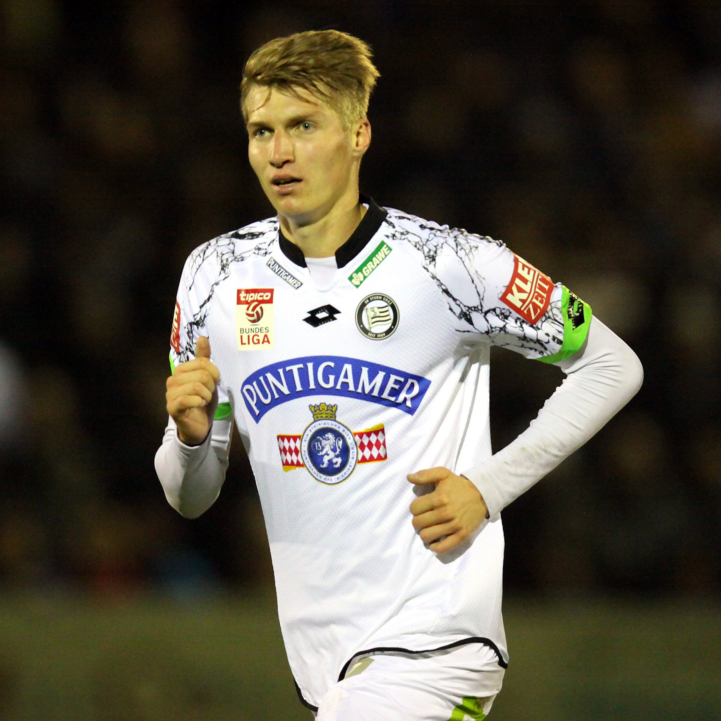 Austrian Cup – ASK Ebreichsdorf (blue shirts) vs. SK Sturm Graz (white shirts) on 2015-10-27 in Ebreichsdorf, 2-3 (0-1) – The photo shows Simon Piesinger.